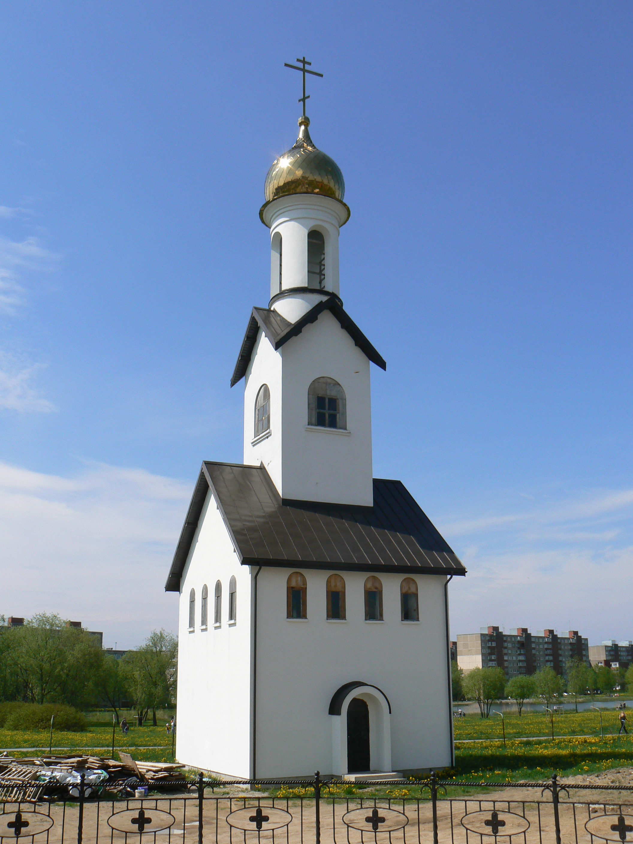 Orthodox church Pokrovo-Micolaus in Klaipėda Smiltelės g. 14a. Side bldg.